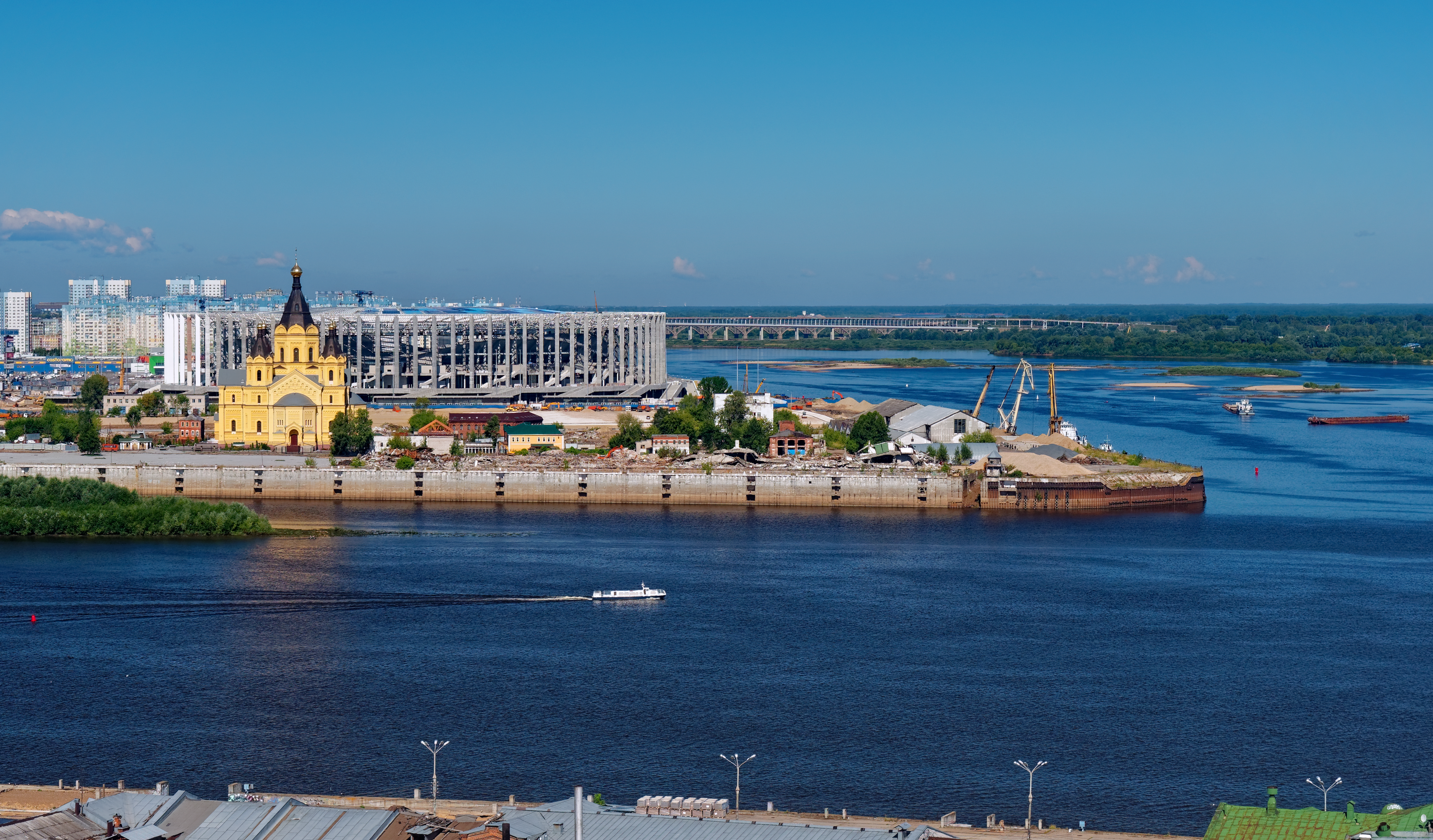 Nizhny Novgorod